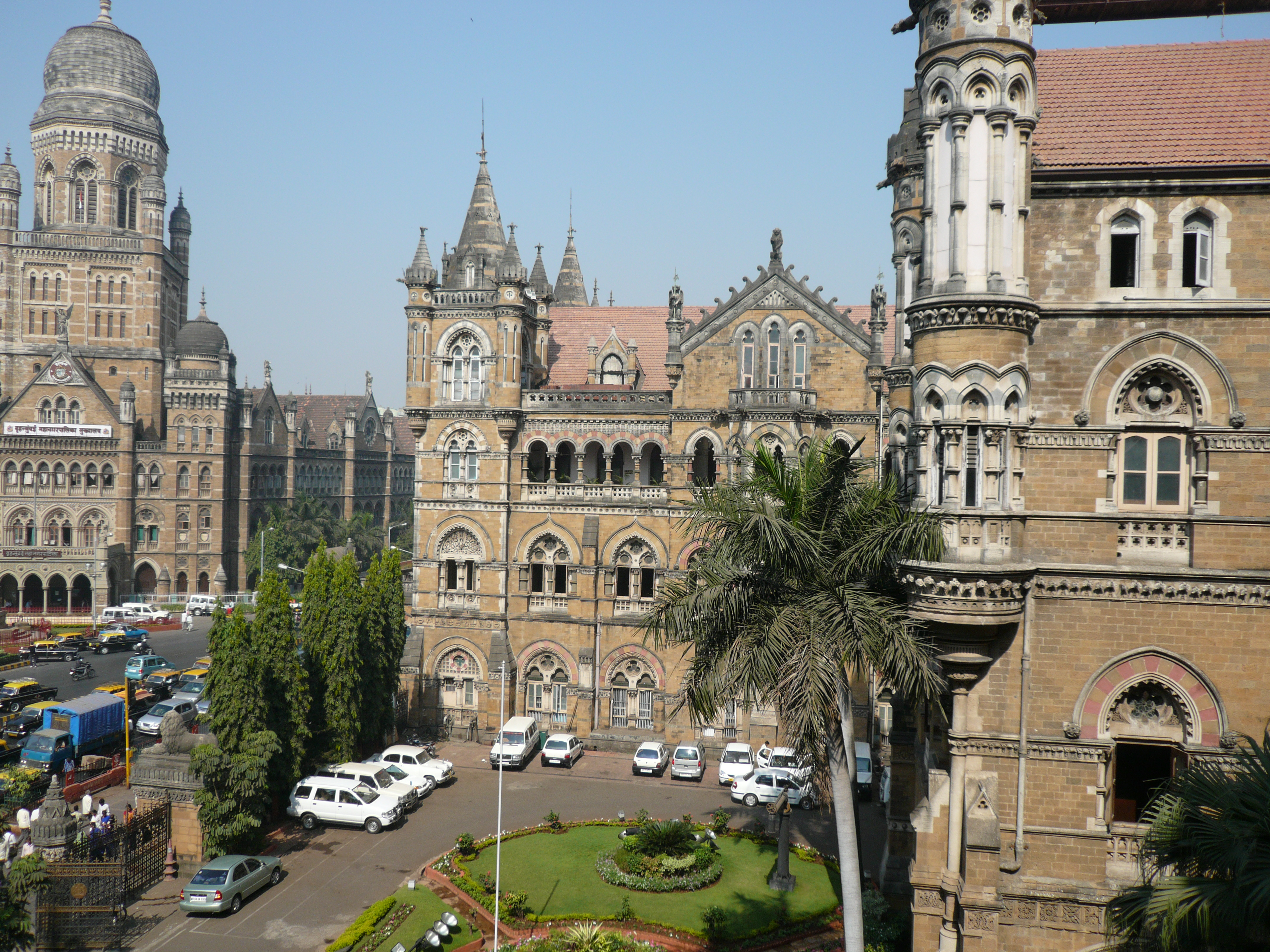 Chhatrapati Shivaji Terminus (formerly Victoria Terminus)